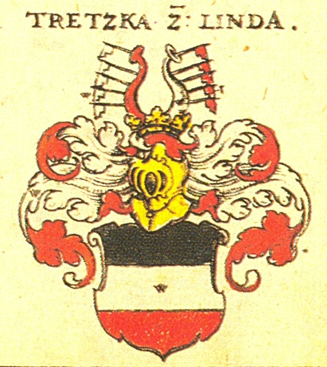 Coat of arms of Trčkové z Lípy